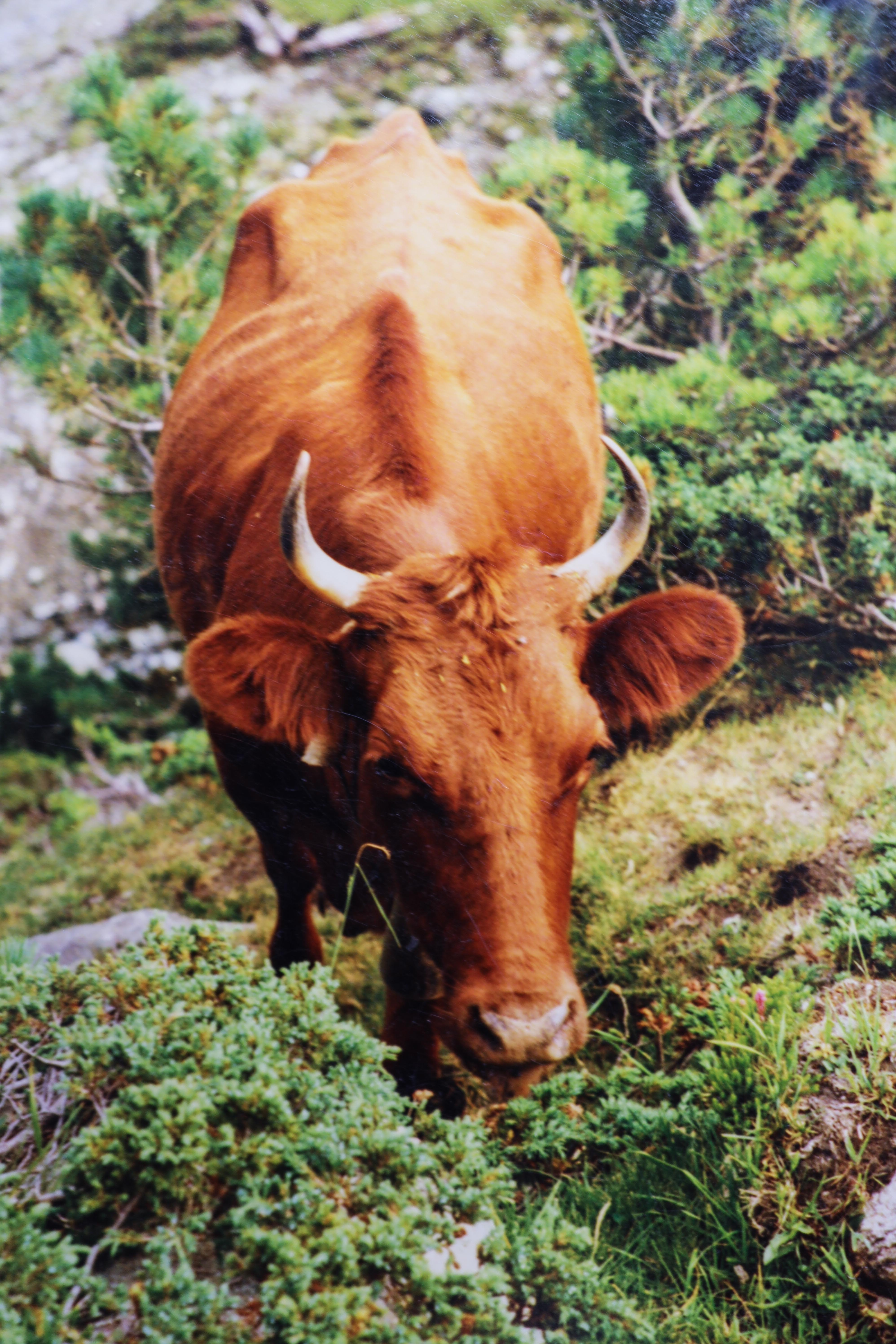 Buša cattle - Red Metohian Buša - Mt Djeravica Prokletije leg P.Cikovac